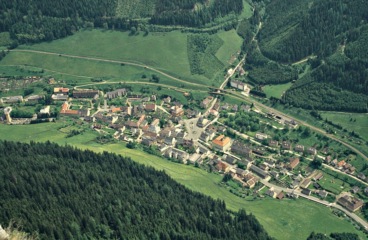 View from above to Vordernberg